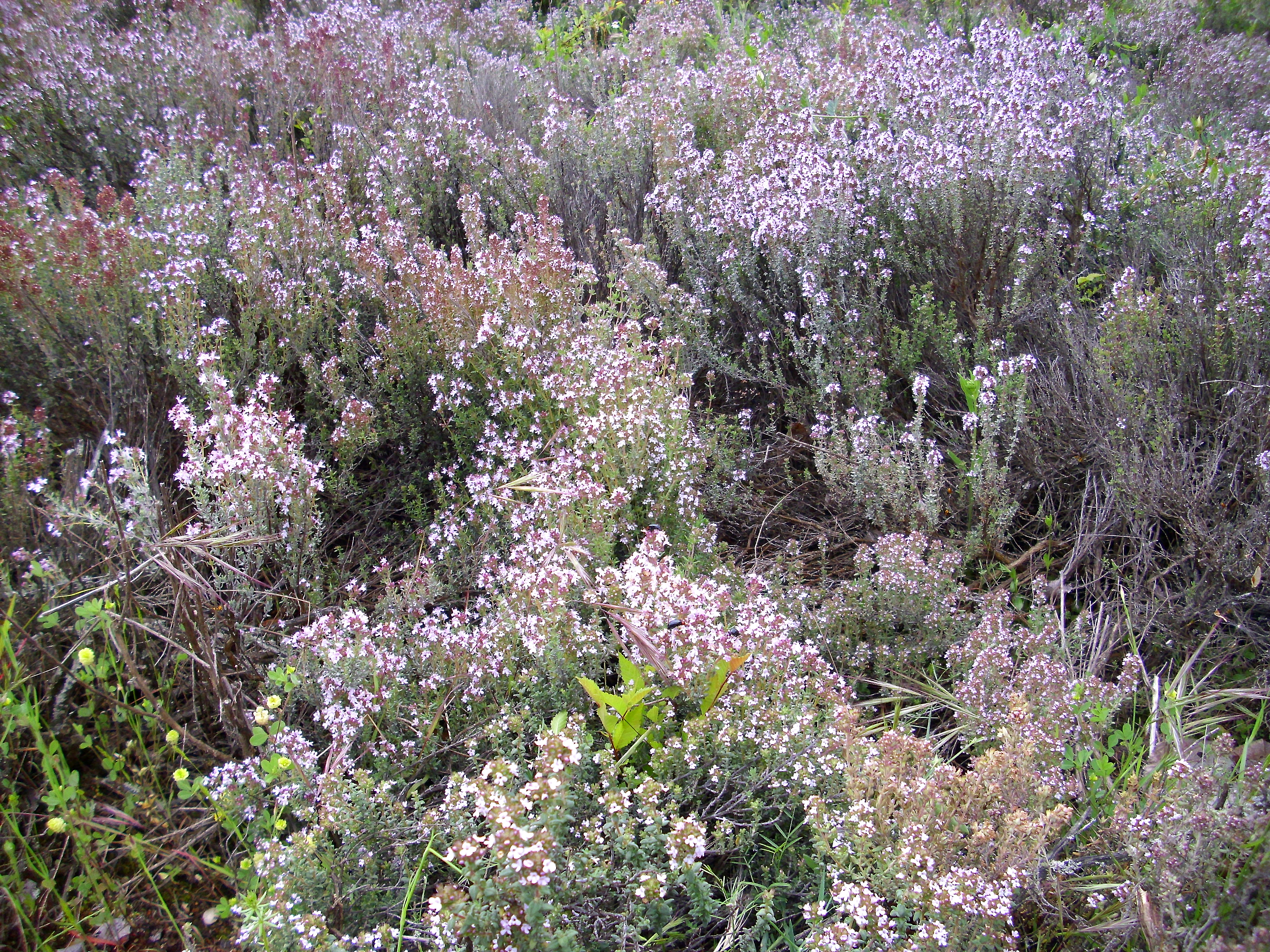 Thymus vulgaris habit Dehesa Boyal de Puertollano, Spain